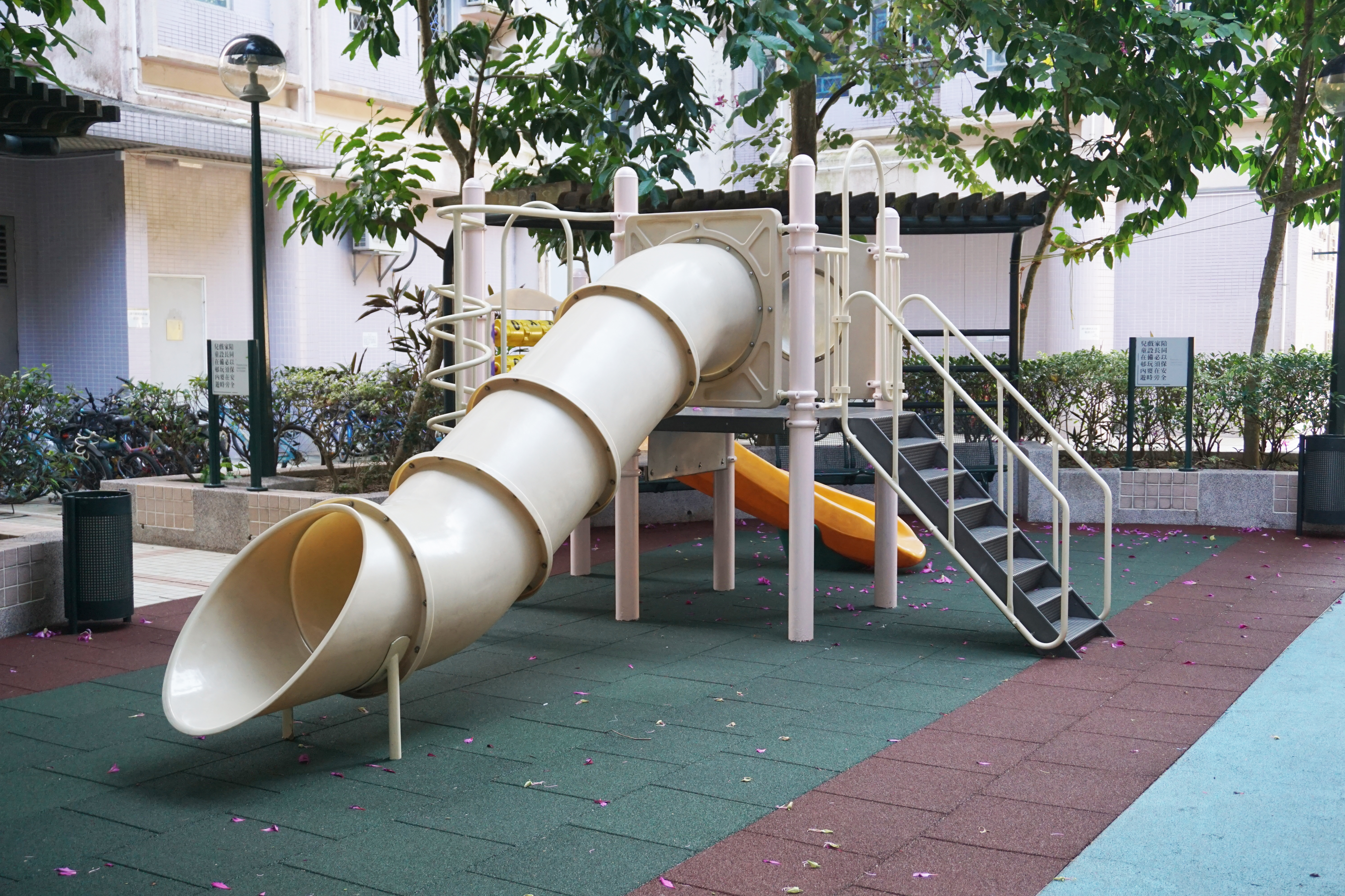 Cheong Shing Court in Fanling, Hong Kong.